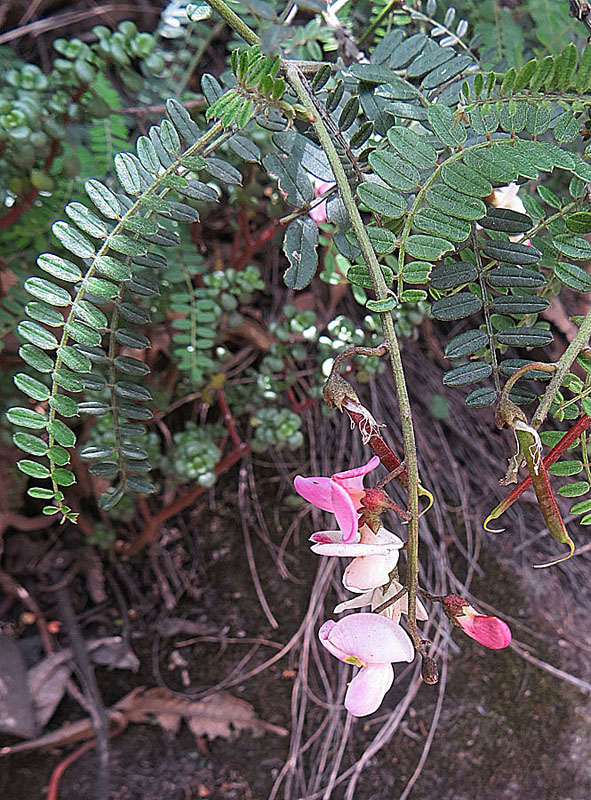 Known as Baby Bonnets, this species seems confined to the mountains of Ecuador. In context at